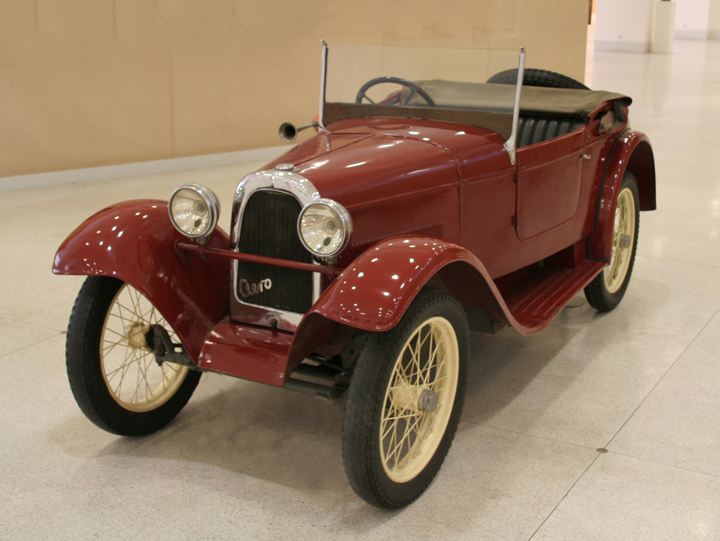 Aero 10 HP Automobile 1930. This small car had a single cylinder 499 ccm two-stroke engine. Seen in the Centre for Modern and Contemporary Art, Veletrzni (Trades Fair) Palace, Prague.